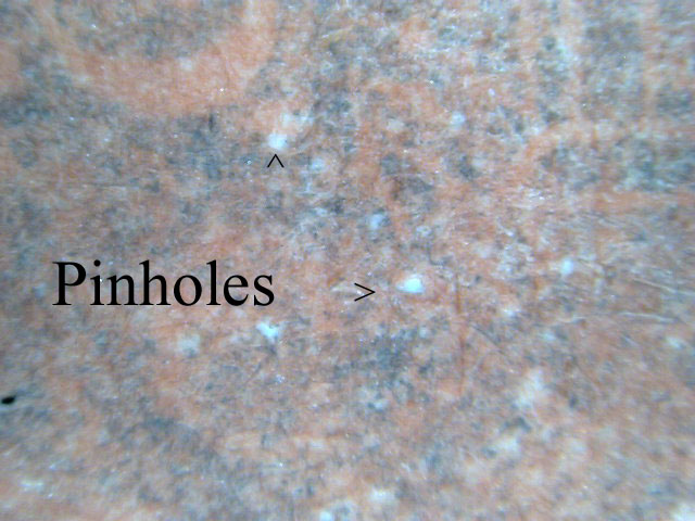 Magnified pinholes in an Afgahnistan stamp